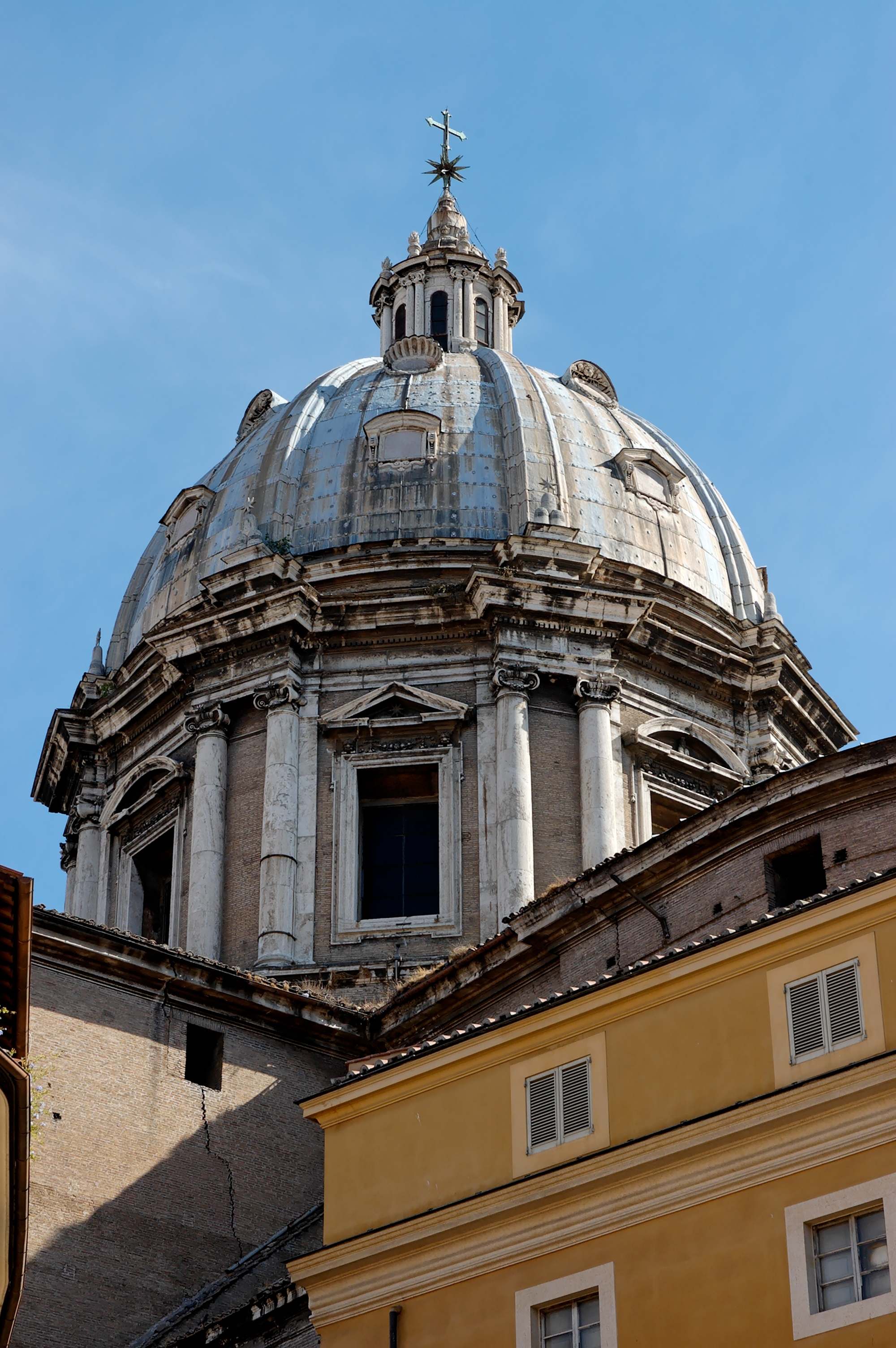 Dome of the church Sant'Andrea della Valle in Rome, work by Girolamo Rainaldi (1665) after designs by Carlo Maderno (1622). View from the piazza del Biscione.